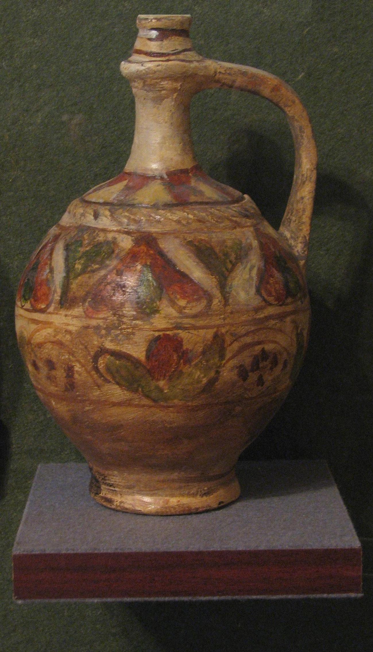 Jug with traditional Eastern-Hungarian motifs from the 15th century. It was found in Hajdúdorog, Hungary. Currently it is exhibited in the Hajdúdorog Historical Museum.